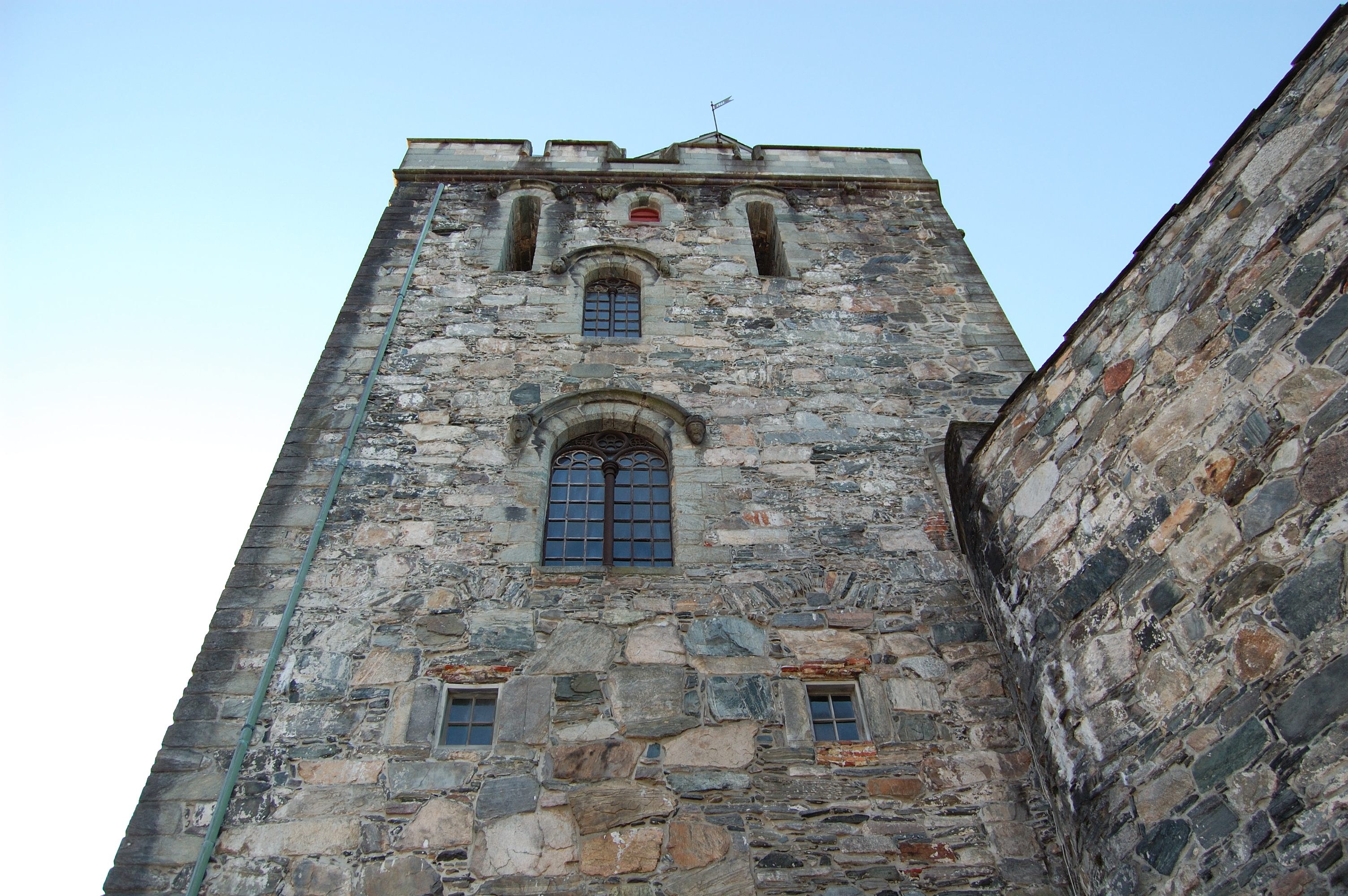 Rosenkrantz Tower which is a part of Bergenhus Fortress in Bergen, Norway.